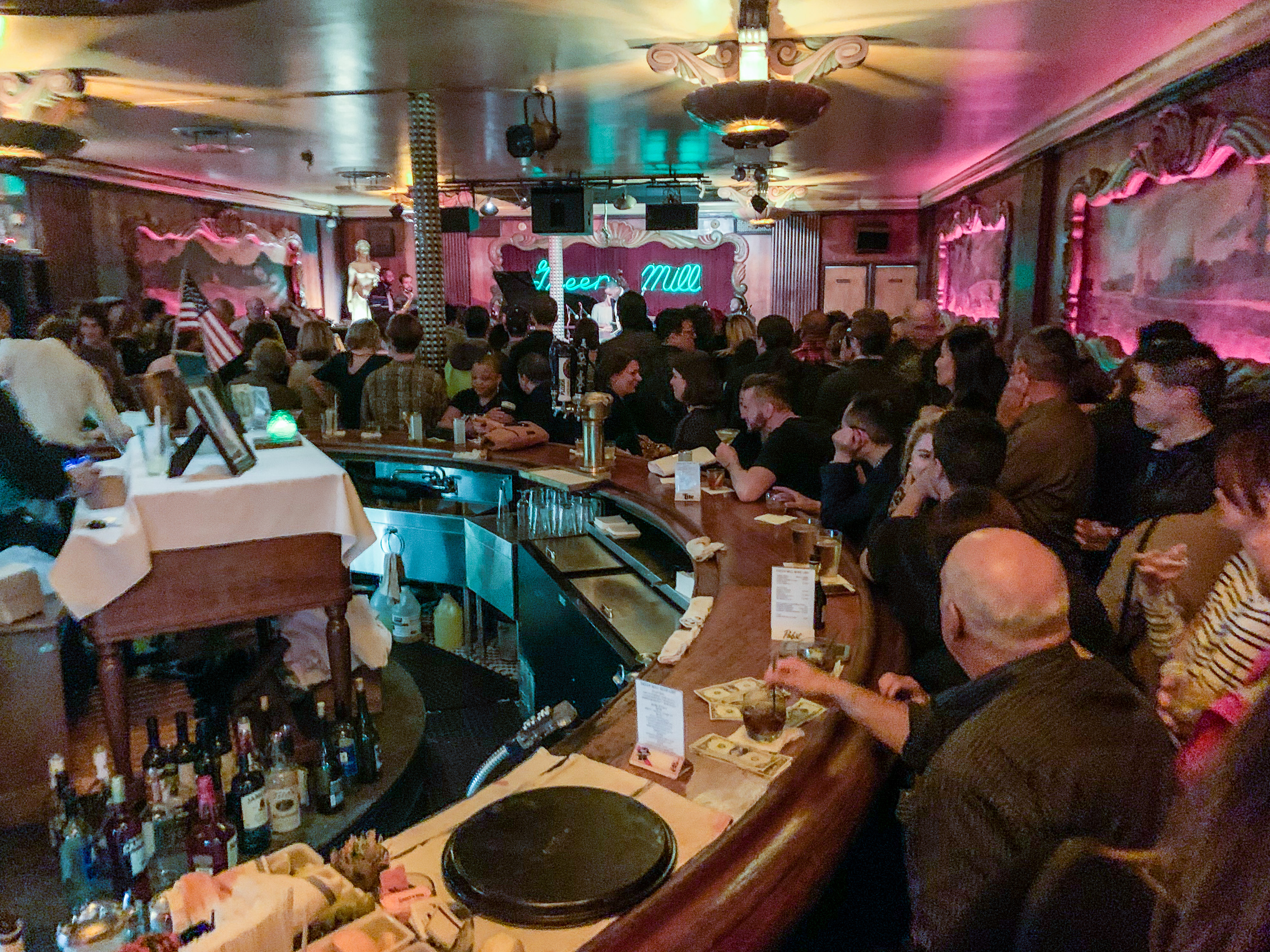 A busy Saturday night at the Green Mill Cocktail Lounge, Chicago.